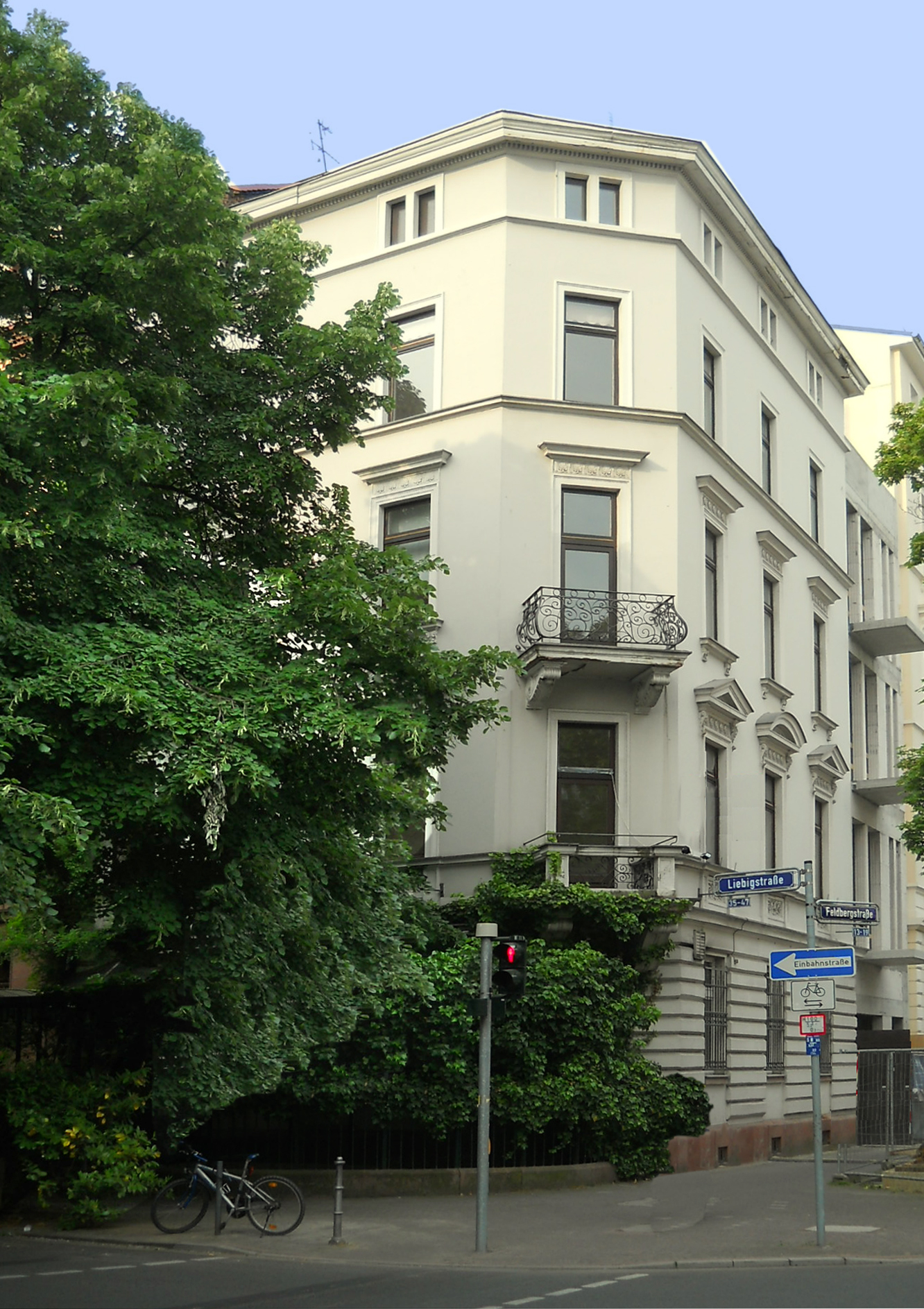 Restaurant Gargantua, Frankfurt am Main, Liebigstraße/Ecke Feldbergstrasse